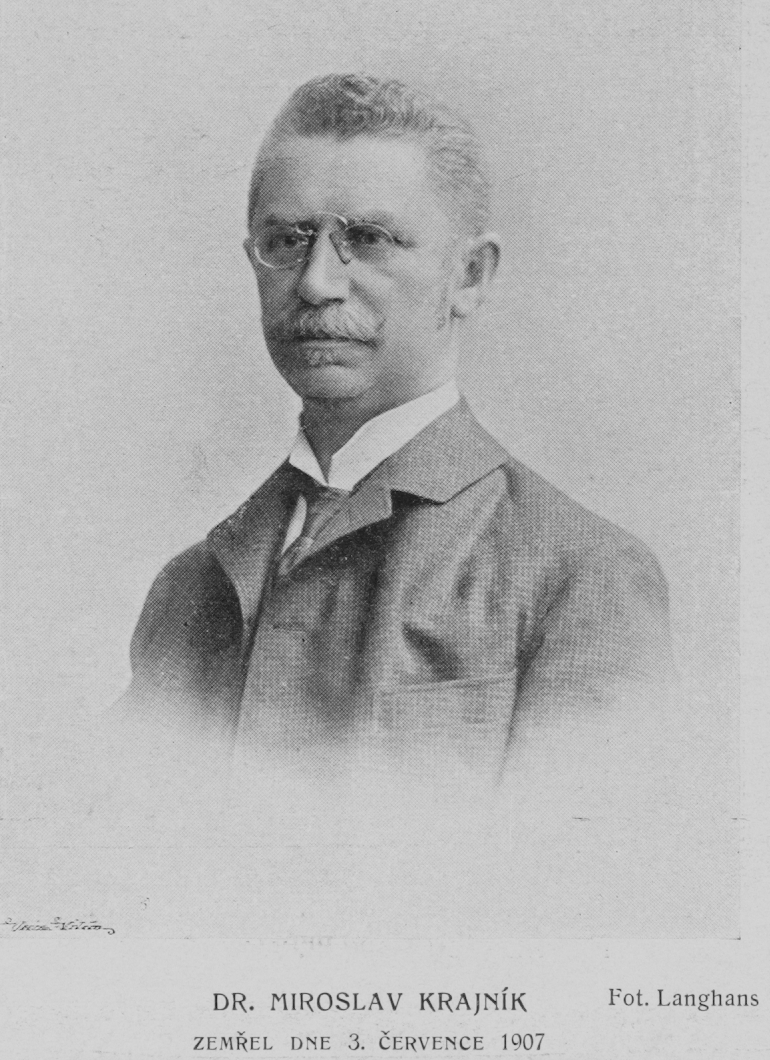 Photograph of Miroslav Krajník (1850 - 1907), Czech poet and translator.